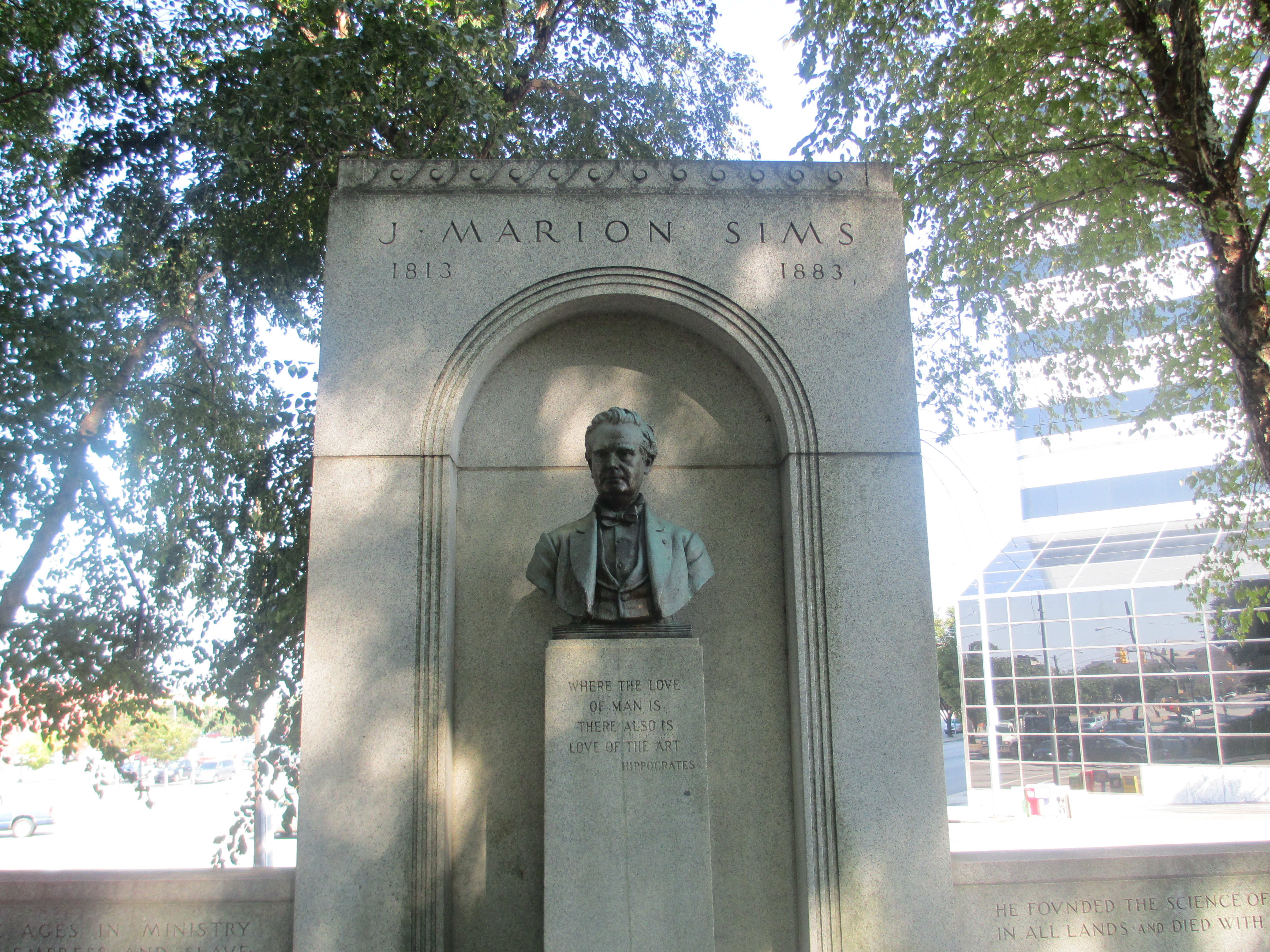 I took photo of Sims momument in Columbia, SC, with Canon camera.